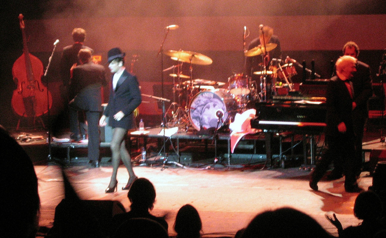 Rufus Wainwright in concert, Berlin, Volksbühne, October 5th, 2007 (yep, lacks focus).